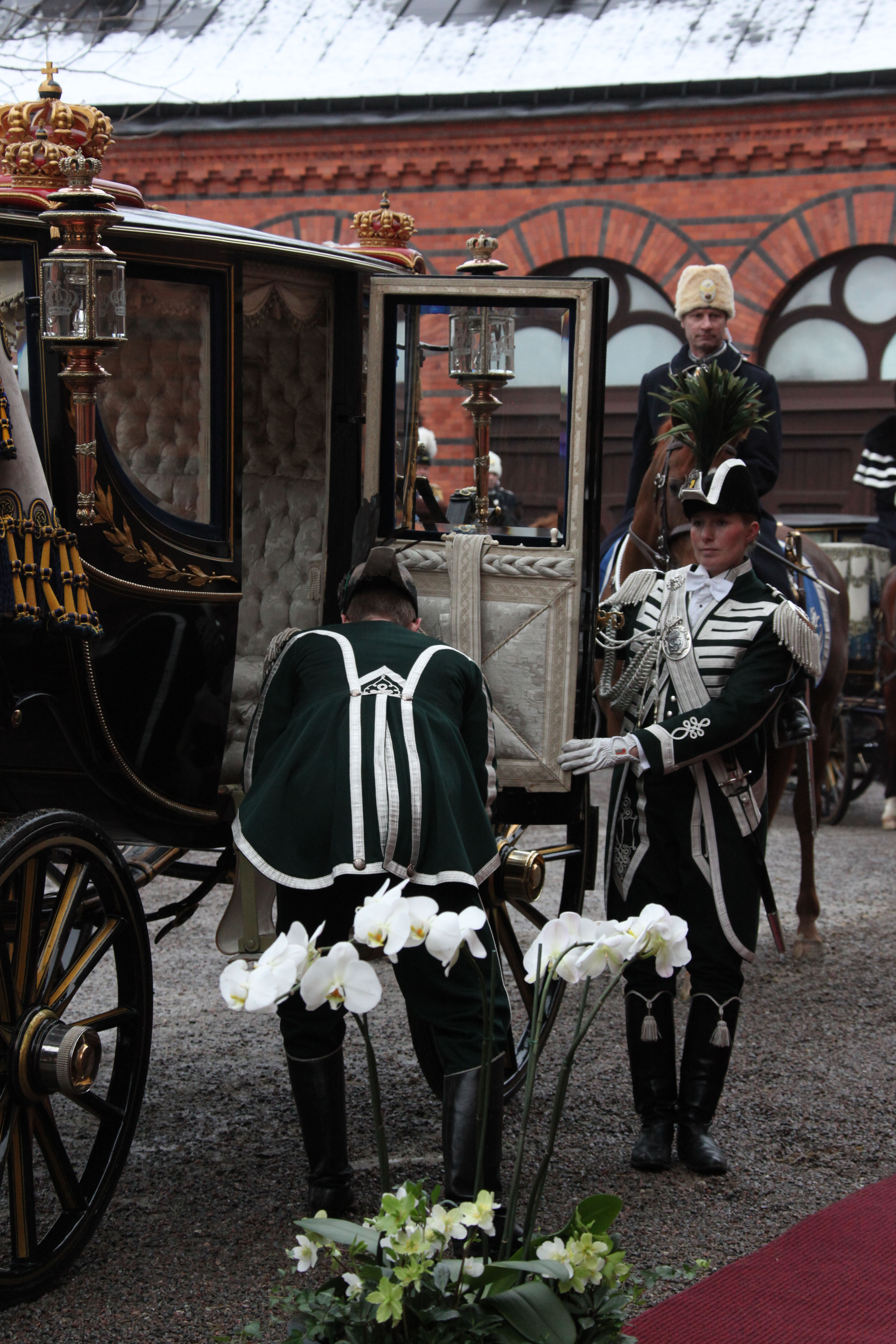 State visit to Stockholm, Sweden, 19-19-20-January 2011